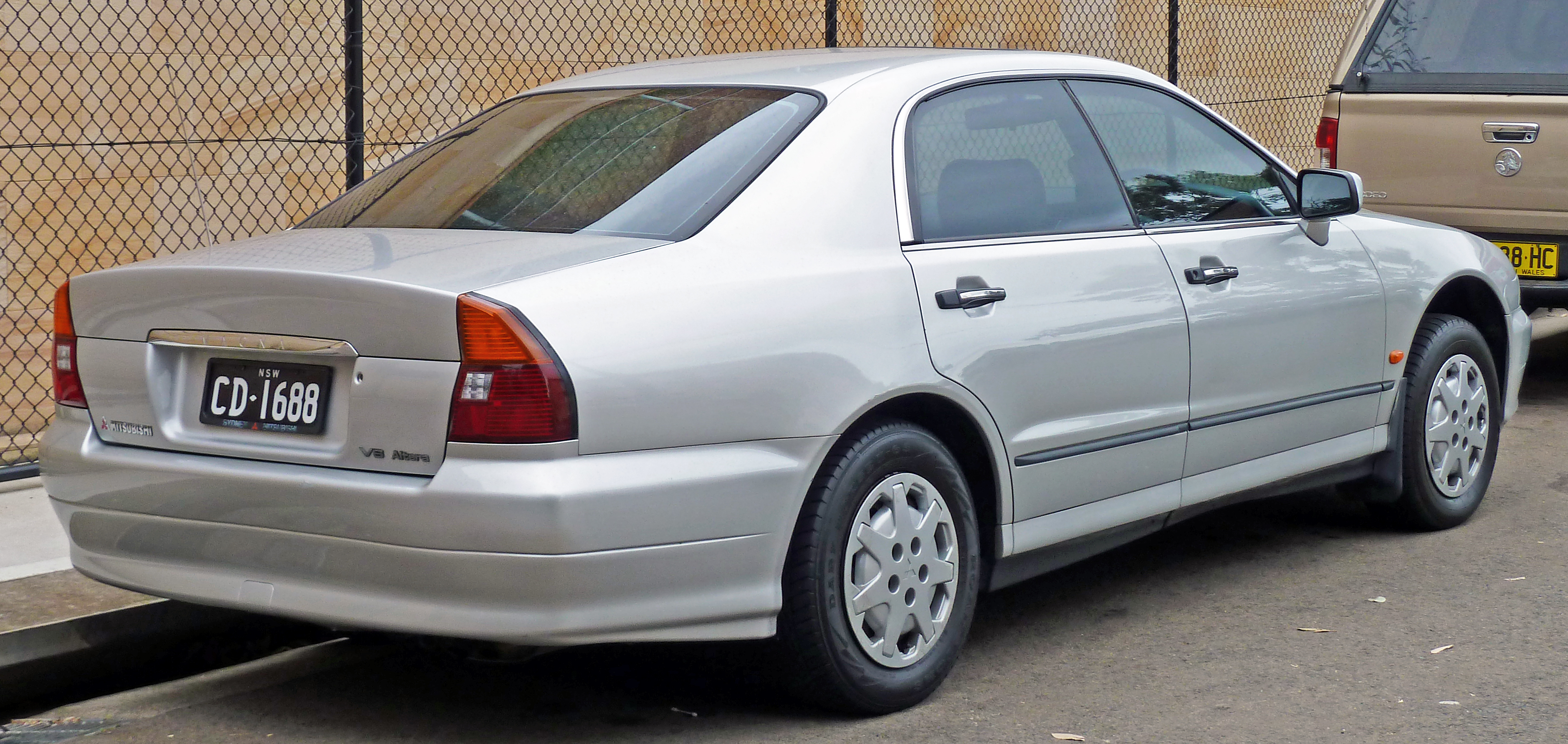 1996 Mitsubishi Magna (TE) Altera sedan. Photographed in Cronulla, New South Wales, Australia.